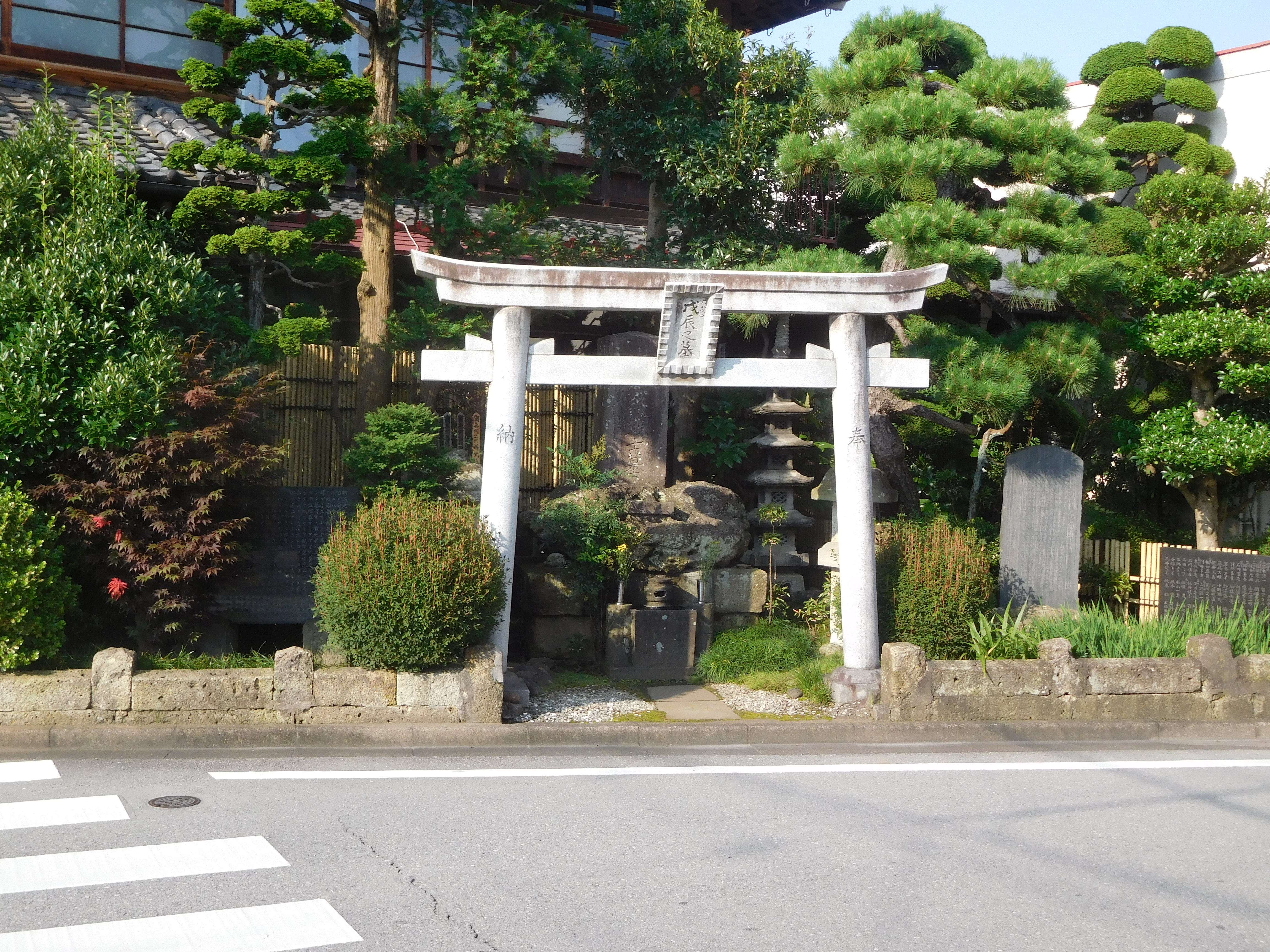 This is the Soldiers' Grave of Boshin War in Utsunomiya, Tochigi, Japan.